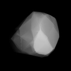 3D convex shape model of 1791 Patsayev, computed using light curve inversion techniques. J. Hanuš, J. Ďurech, M. Brož, B. D. Warner (June 2011). "A study of asteroid pole-latitude distribution based on an extended set of shape models derived by the lightcurve inversion method". Astronomy and Astrophysics 530: A134. ISSN 0004-6361. arXiv